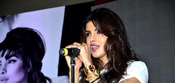 Priyanka Chopra performing in Mumbai